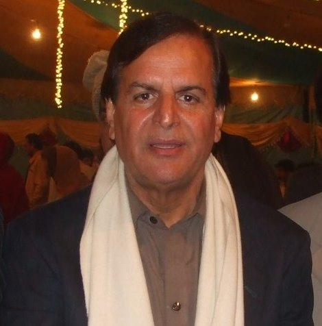 on the wedding of his brother,s daughter